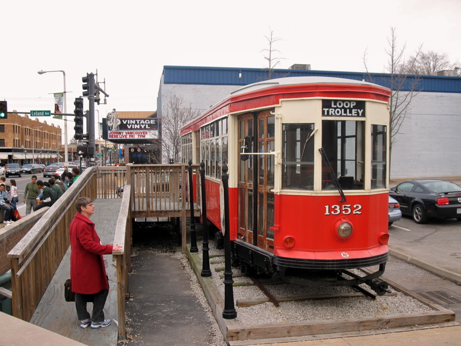 Ex-Milan Peter Witt streetcar No. 1811 on display in St. Louis, Missouri, after refurbishment in 2005 by the Gomaco Trolley Company, and renumbering as "1352". It was one of two such cars intended for eventual use on the planned Delmar Loop Trolley line.